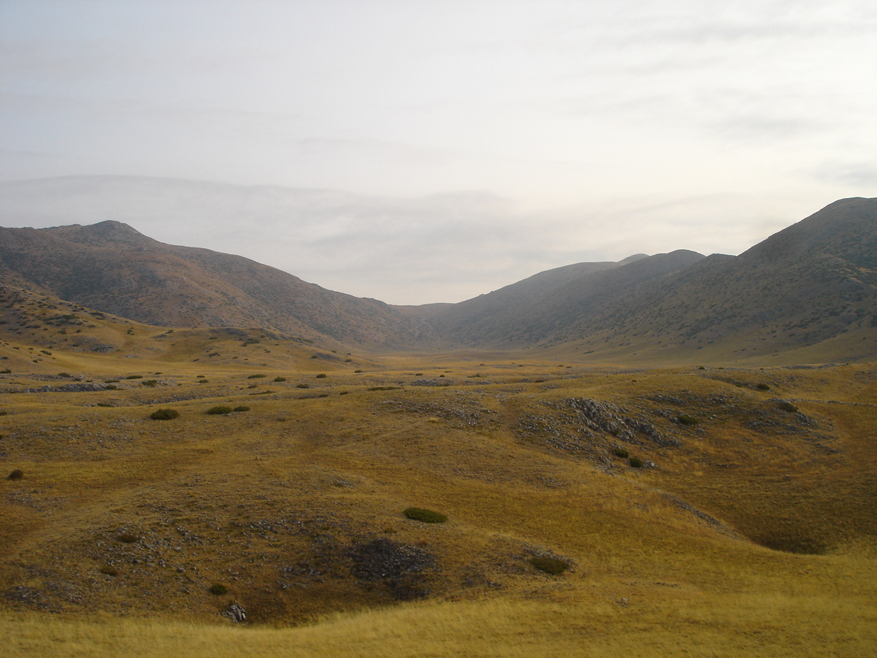 Suvo Pole plain on Bistra Mountain, Macedonia